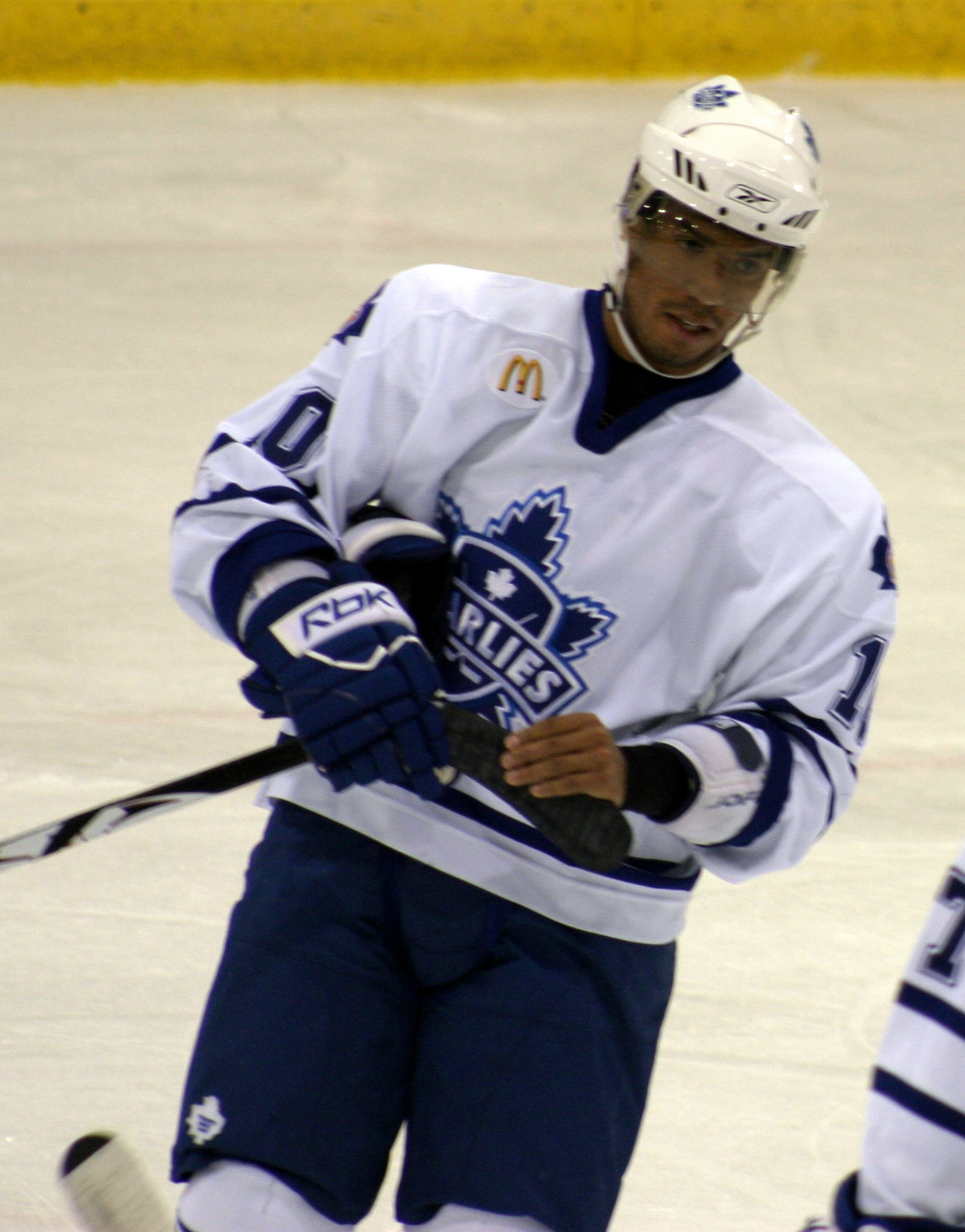 Robbie Earl during a preseason game against the Manitoba Moose held in Fort Frances, ON on 28 Sept. 2007.